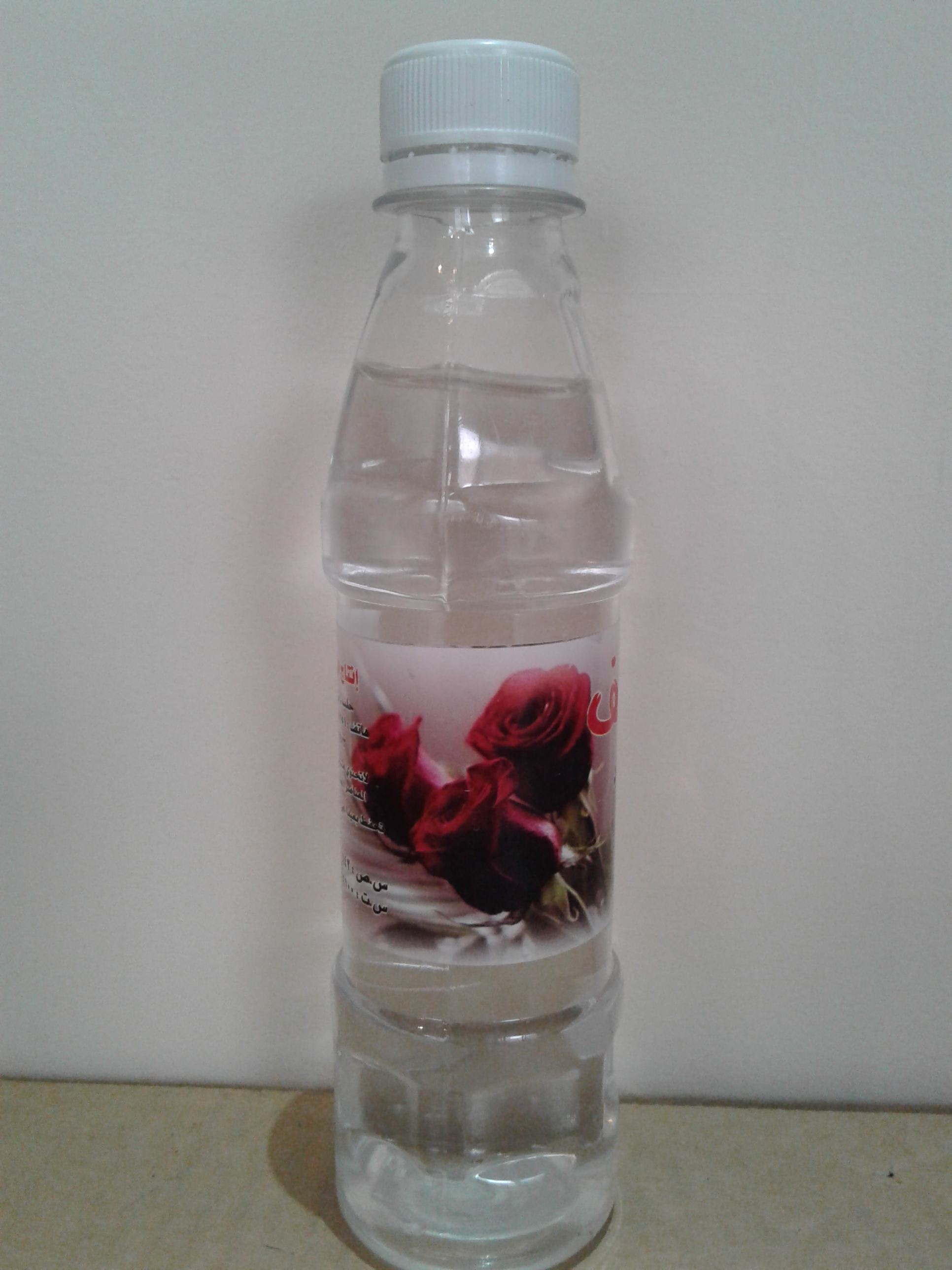 صورة لقنينة ماء الورد.